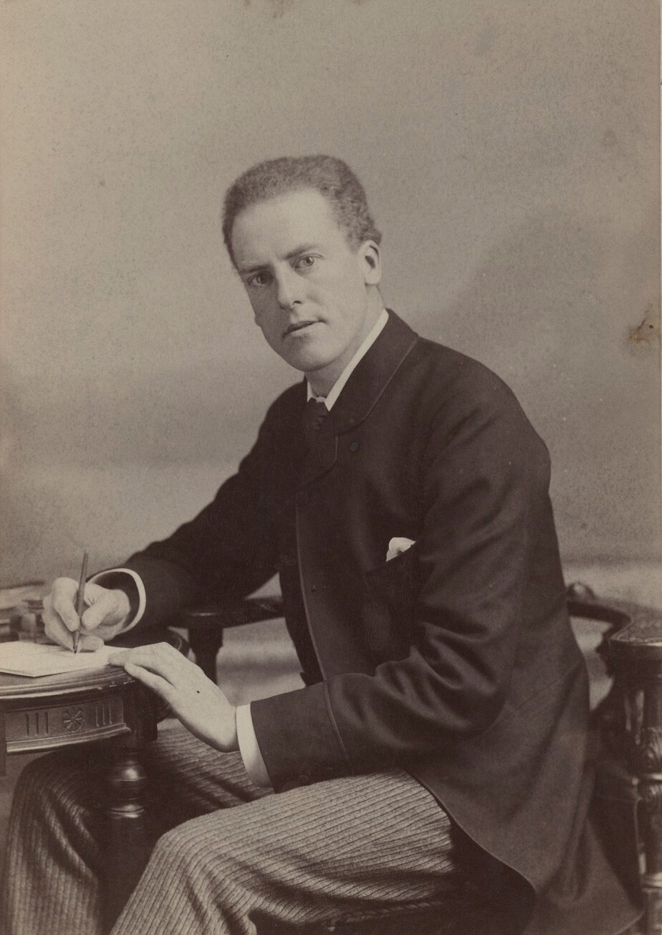 Portrait of Karl Pearson, 1890.